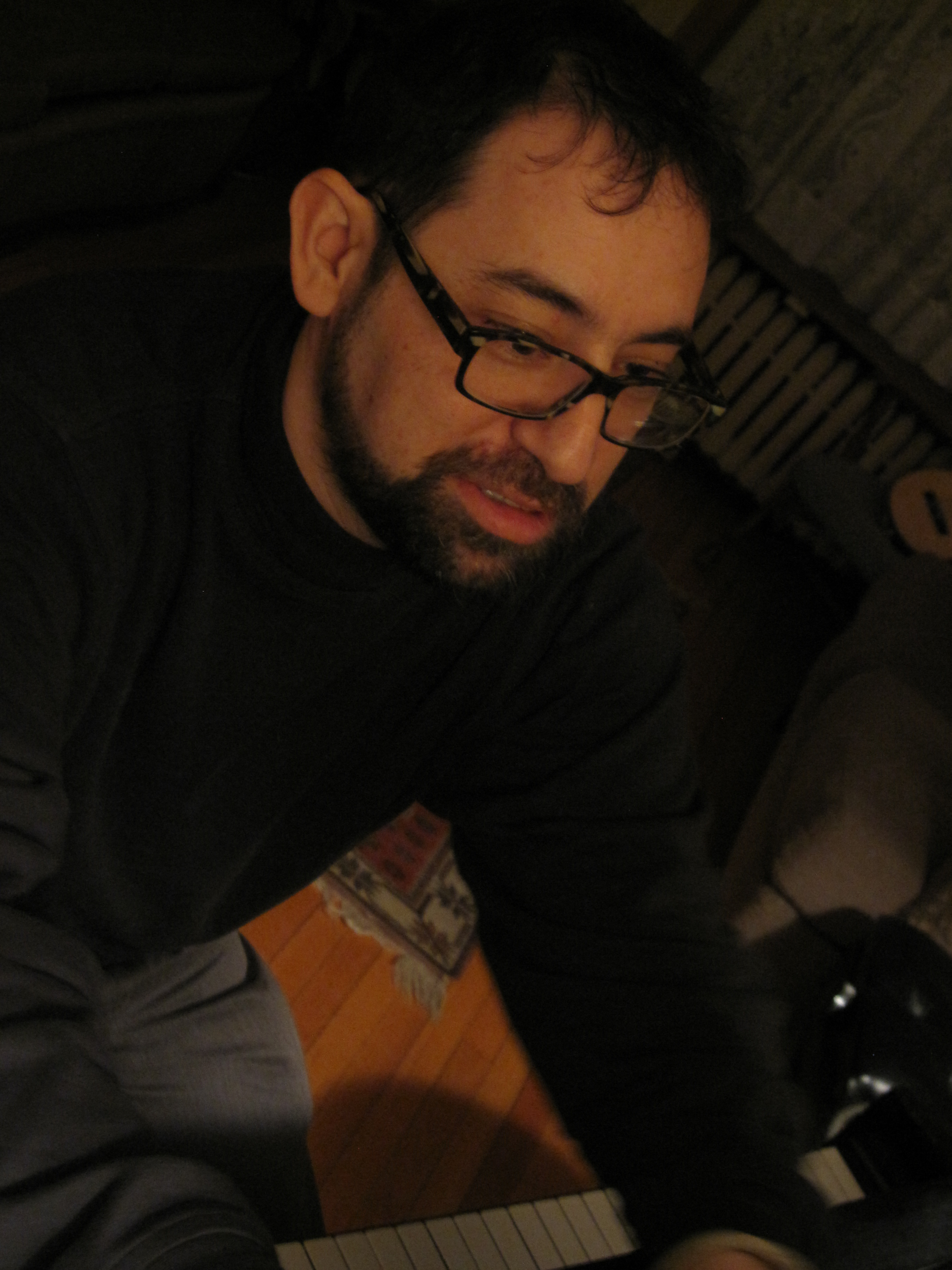 Rick Perlstein seated at a baby grand piano, selecting music to play from a book of jazz standards, Chicago, March 2013.